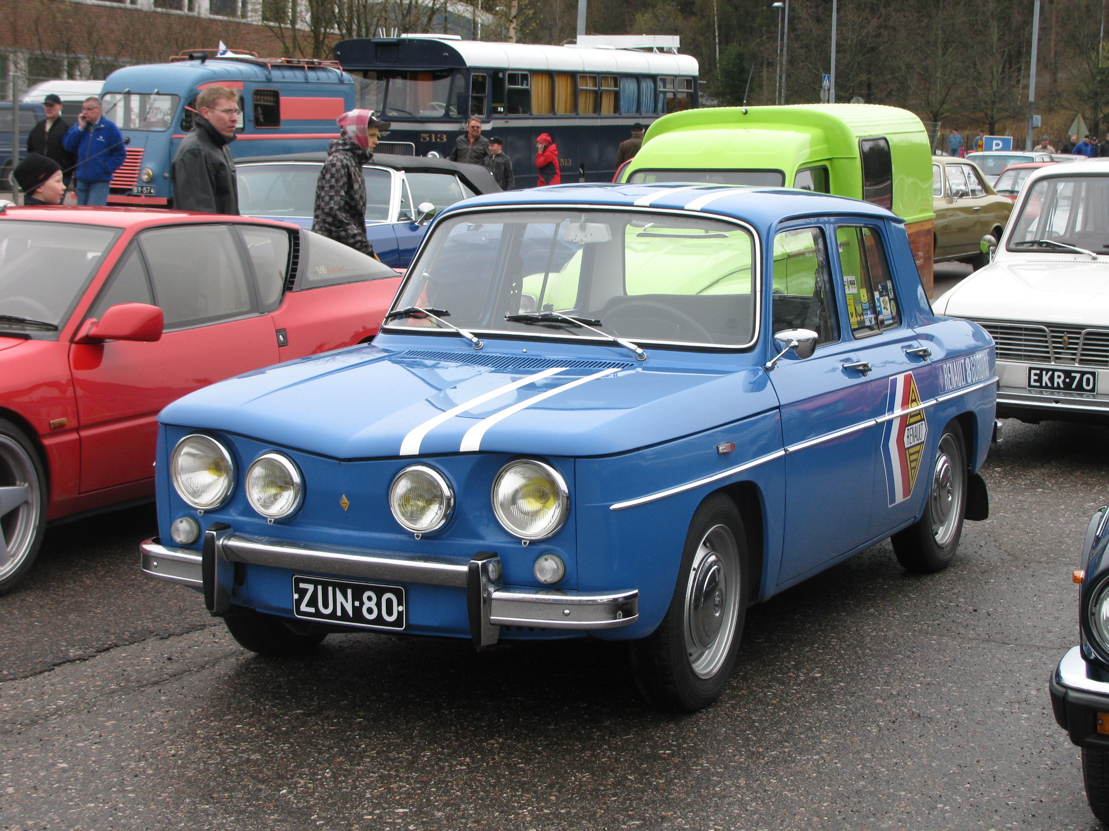 Renault R8 Gordini, Classic Motor Show parking lot in Lahti, Finland.